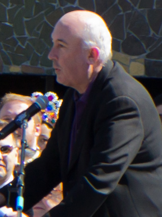 Keister rounded out the festivities with a summary of the Seattle Center and described Seattle's voting process of downvoting the baseball stadium and voting for the monorail extension three times and noted how we only got a one block extension of the monorail. He also noted how now the "preferred" (my synopsis) mode of transportation is to "ride your bike". Keister noted that when he was 6, he had a bike, and was promised that in the future we'd have jetpacks, and how we've come full circle back to bikes. Very entertaining bit; I'm sure someone recorded it and will put it up on YouTube.